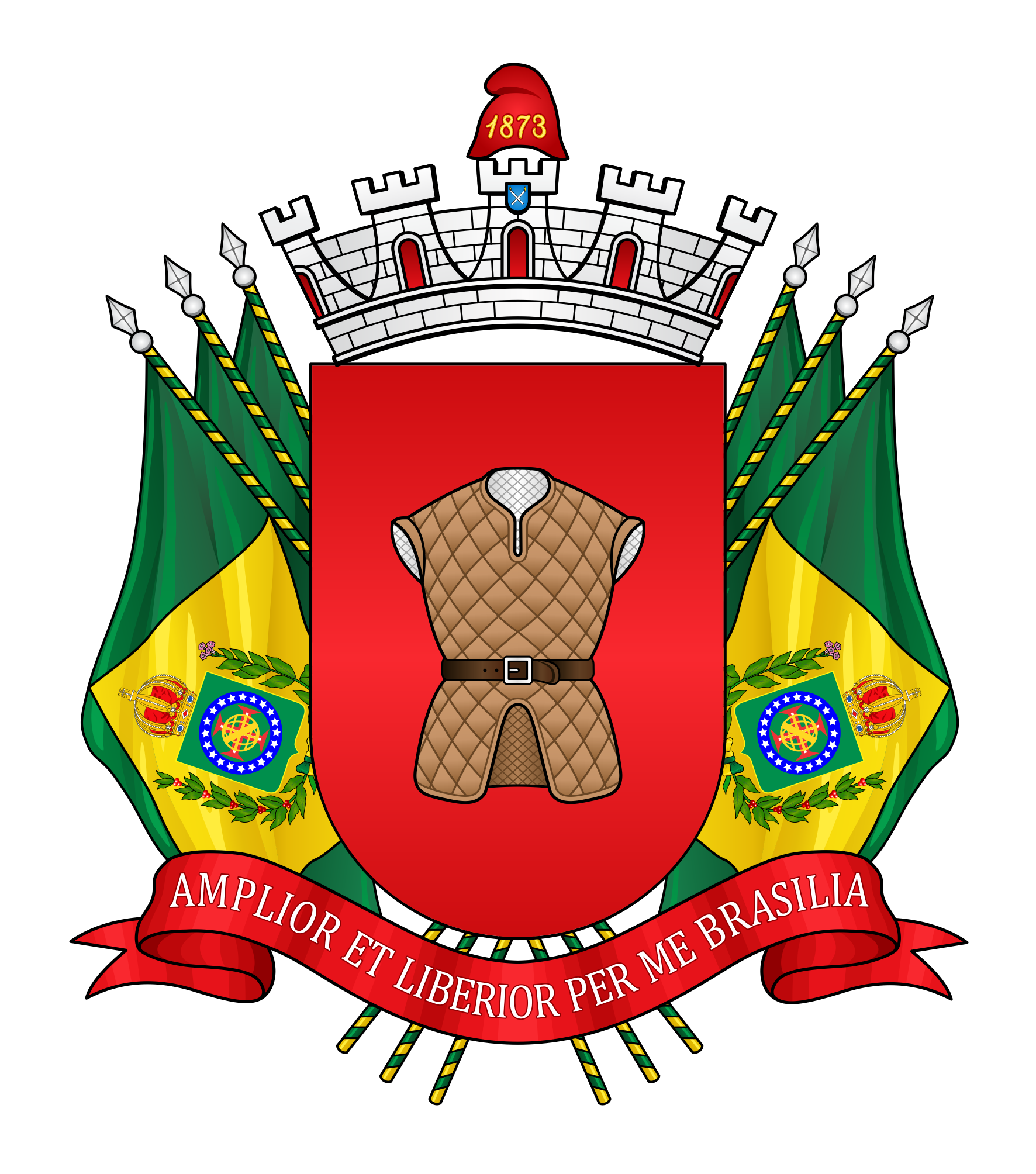 Coat of arms of Itu, São Paulo state, Brasil This work is in the public domain in Brazil for one of the following reasons: It is a work published or commissioned by a Brazilian government (federal, state, or municipal) prior to 1983.(Law 3071/1916, art. 662; Law 5988/1973, art. 46; Law 9610/1998, art. 115) It is the text of a treaty, convention, law, decree, regulation, judicial decision, or other official enactment.(Law 9610/1998, art. 8) Emerson